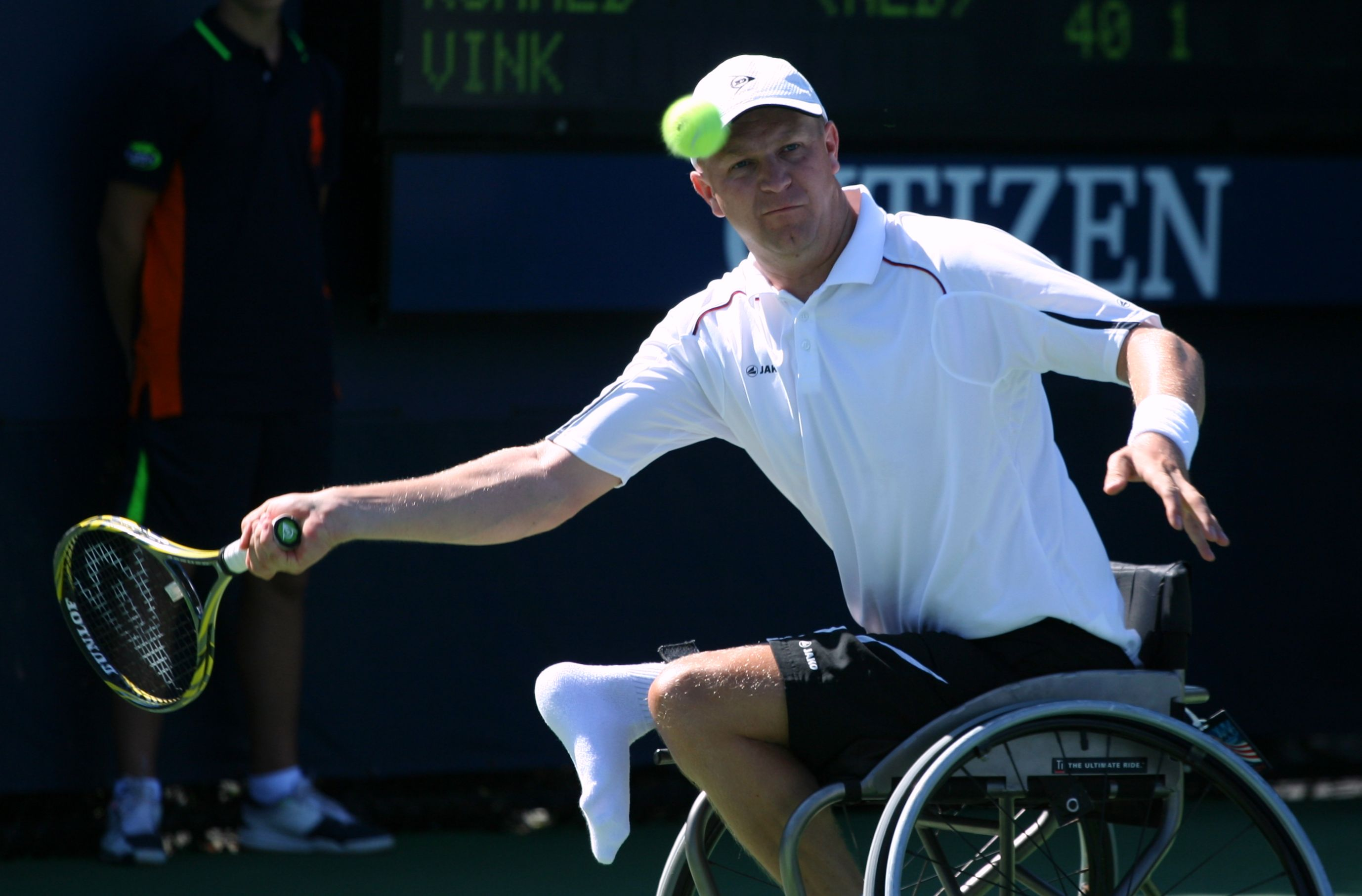 U.S. Open Wheelchair Friday, Sept. 9, 2011